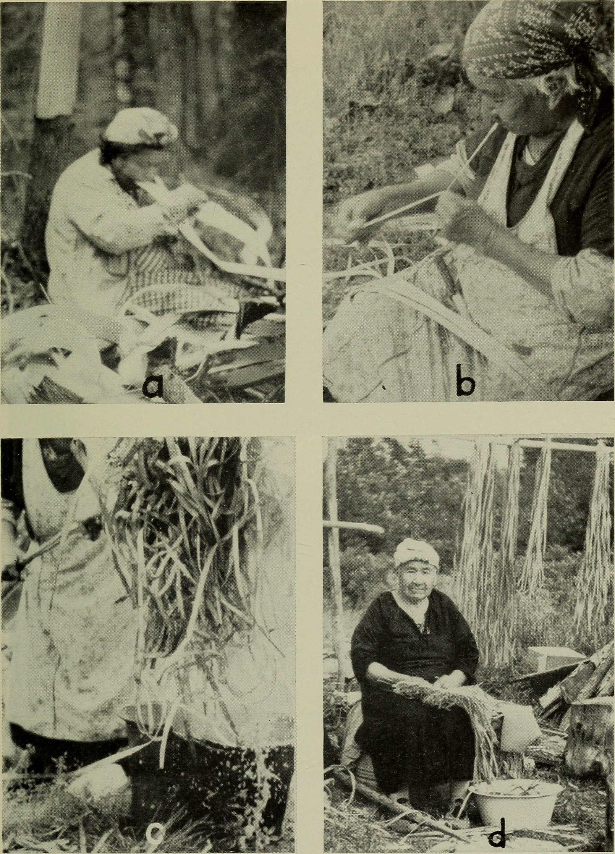 Title: Bulletin Year: 1901 (1900s) Authors: Smithsonian Institution. Bureau of American Ethnology Subjects: Ethnology Publisher: Washington : G. P. O. Text Appearing Before Image: BUREAU OF AMERICAN ETHNOLOGY BULLETIN 186 PLATE 43 Text Appearing After Image: Cedar-bark mat: Prcpannt: strips, a, Mrs. Robert Strong pulling inner bark away from outer; stripped tree in back, h, Mrs. Peter Goodsky splitting strips, f, Removing two bunches of strips from dye bath, d^ Weaving a bag from fragments; mat strips at rear.